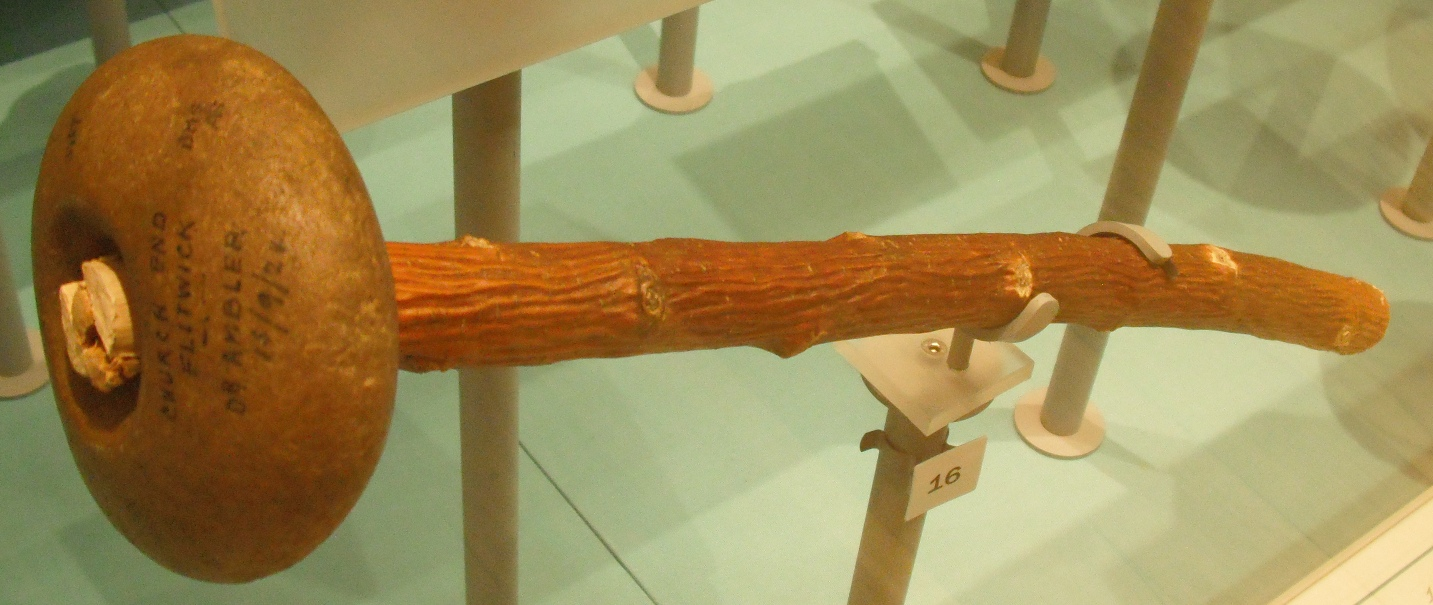 A Bronze Age stone mace-head mounted onto a modern wooden handle. On display in the Higgins museum and gallery, Bedford.